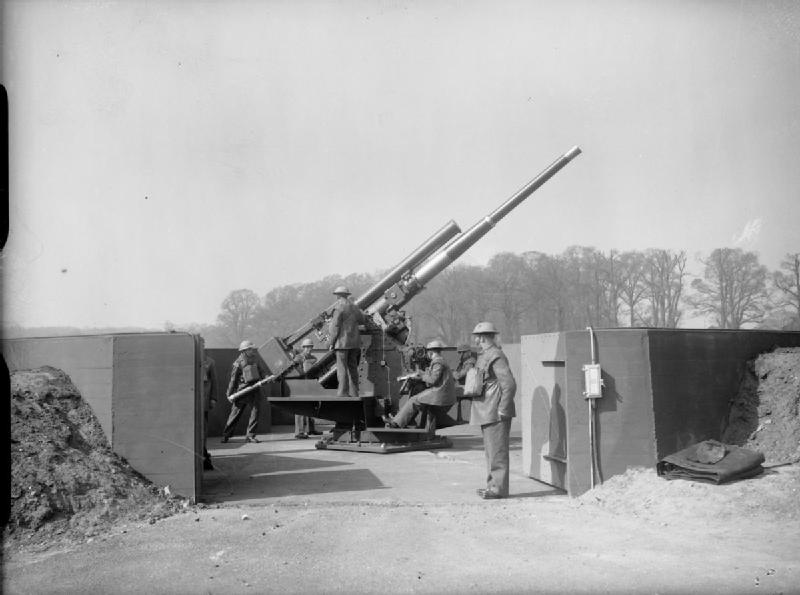 The British Army in the United Kingdom 1939-45 3.7-inch anti-aircraft gun in Richmond Park, London, 1940.